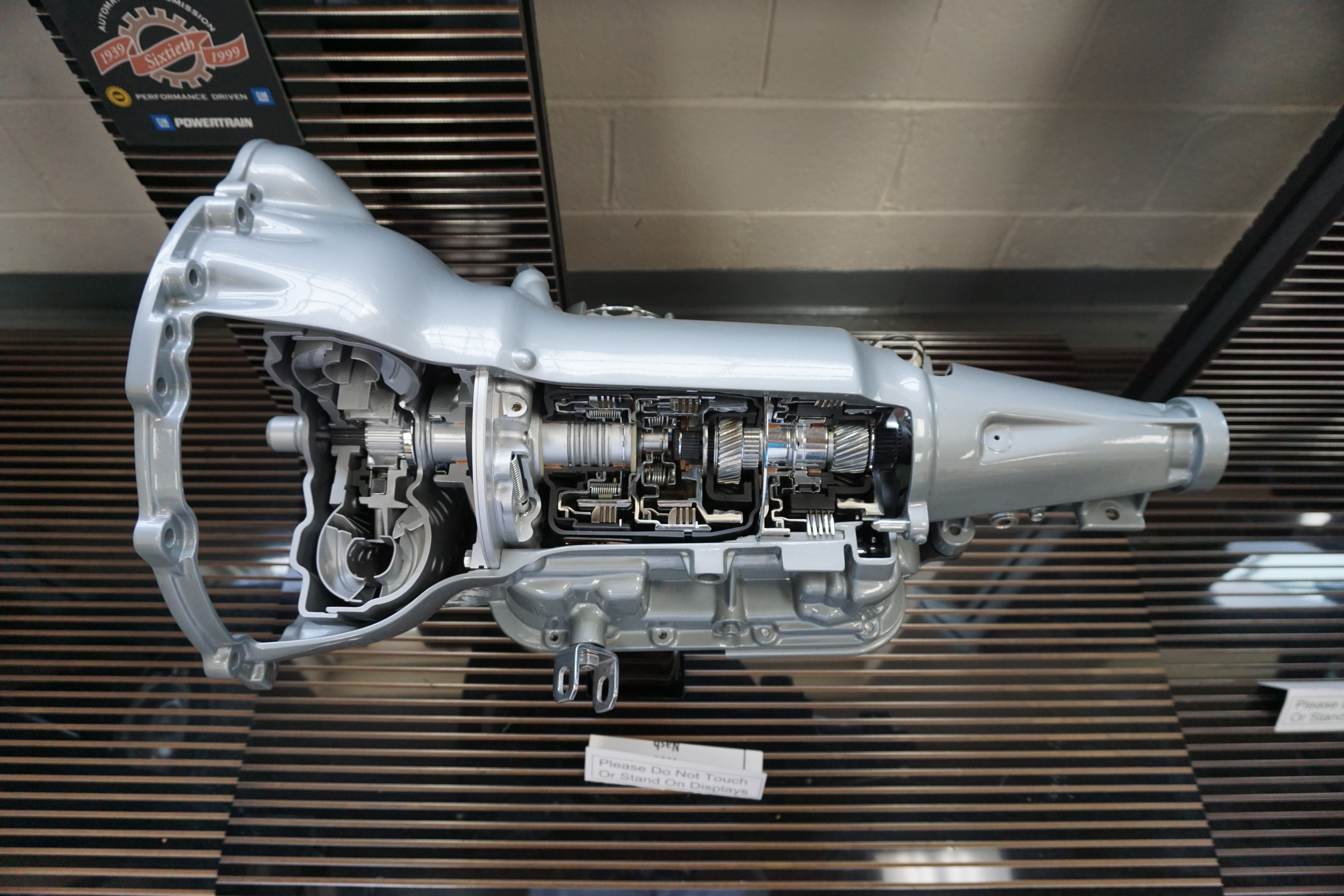 A 1975-87 THM 200 transmission at the Ypsilanti Automotive Heritage Museum in Ypsilanti, Michigan (United States).